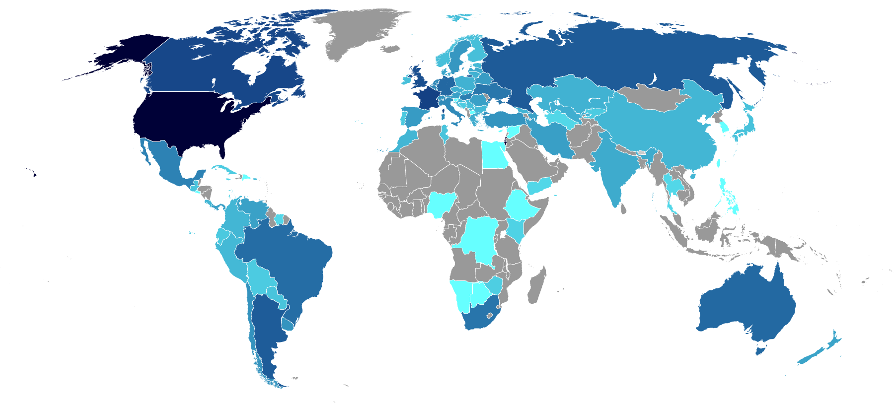 The image illustrates a map with the number of Jews by country shaded in blue.